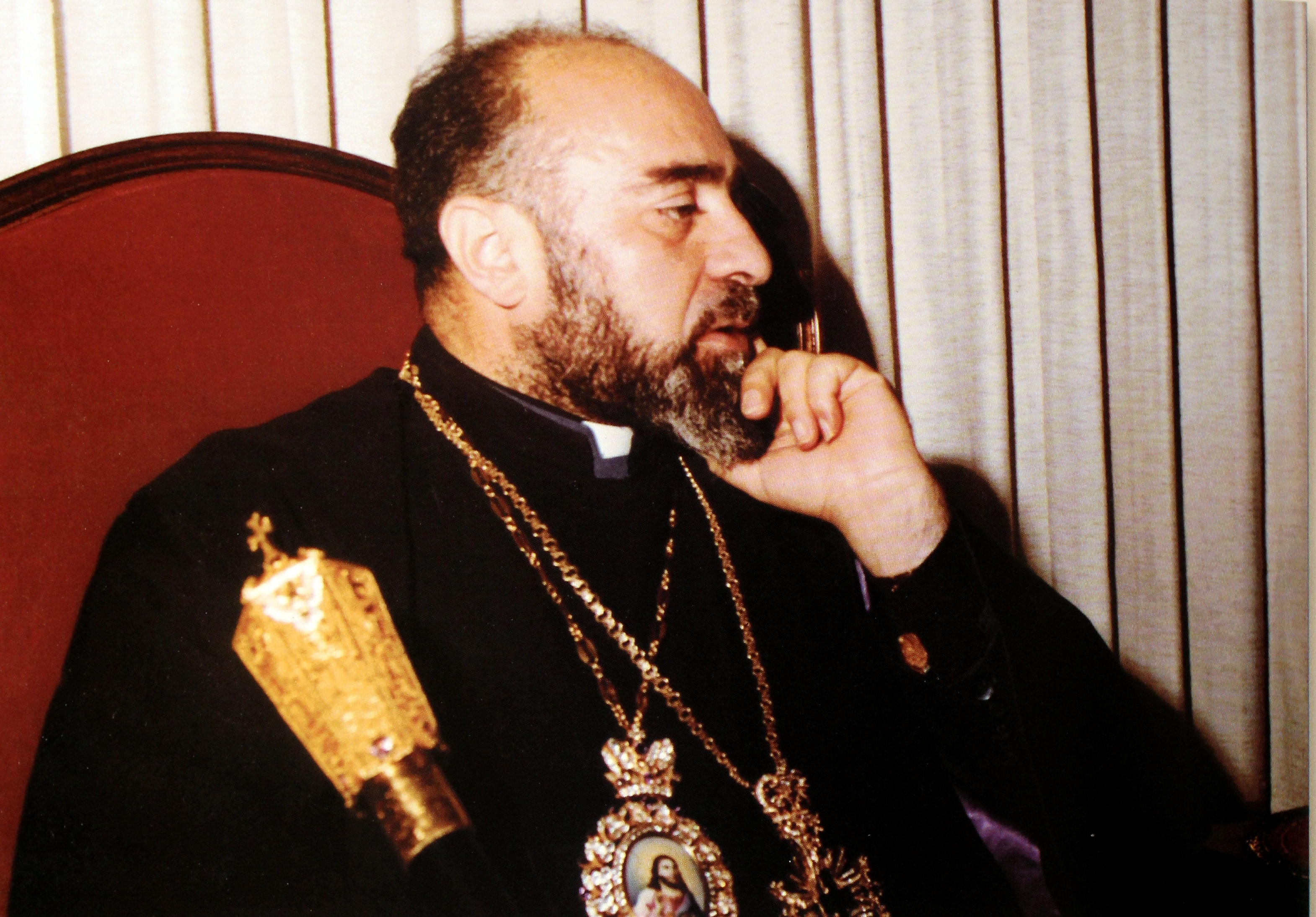 The making of this file was supported by Wikimedia Armenia.